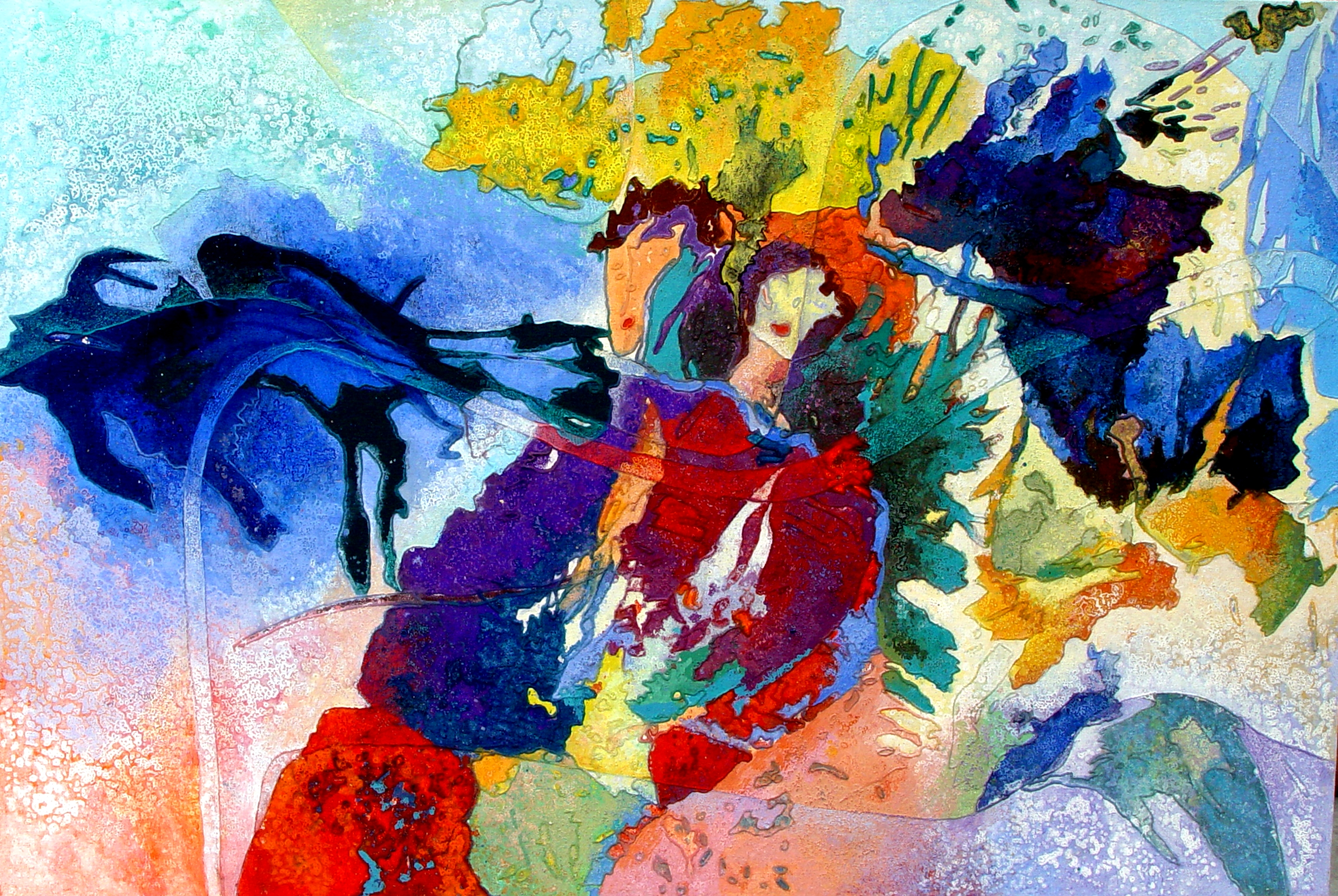 Erika Seywald, Expectation, Oil on canvas, 2006